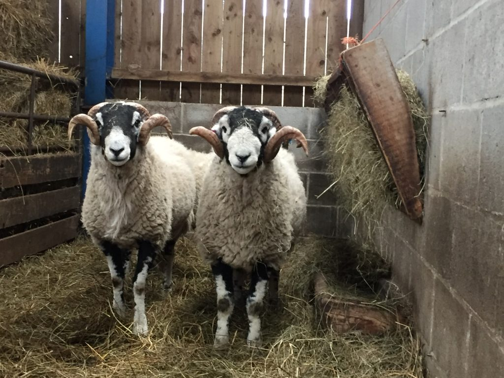 Two Swaledale tups (rams) in a barn.